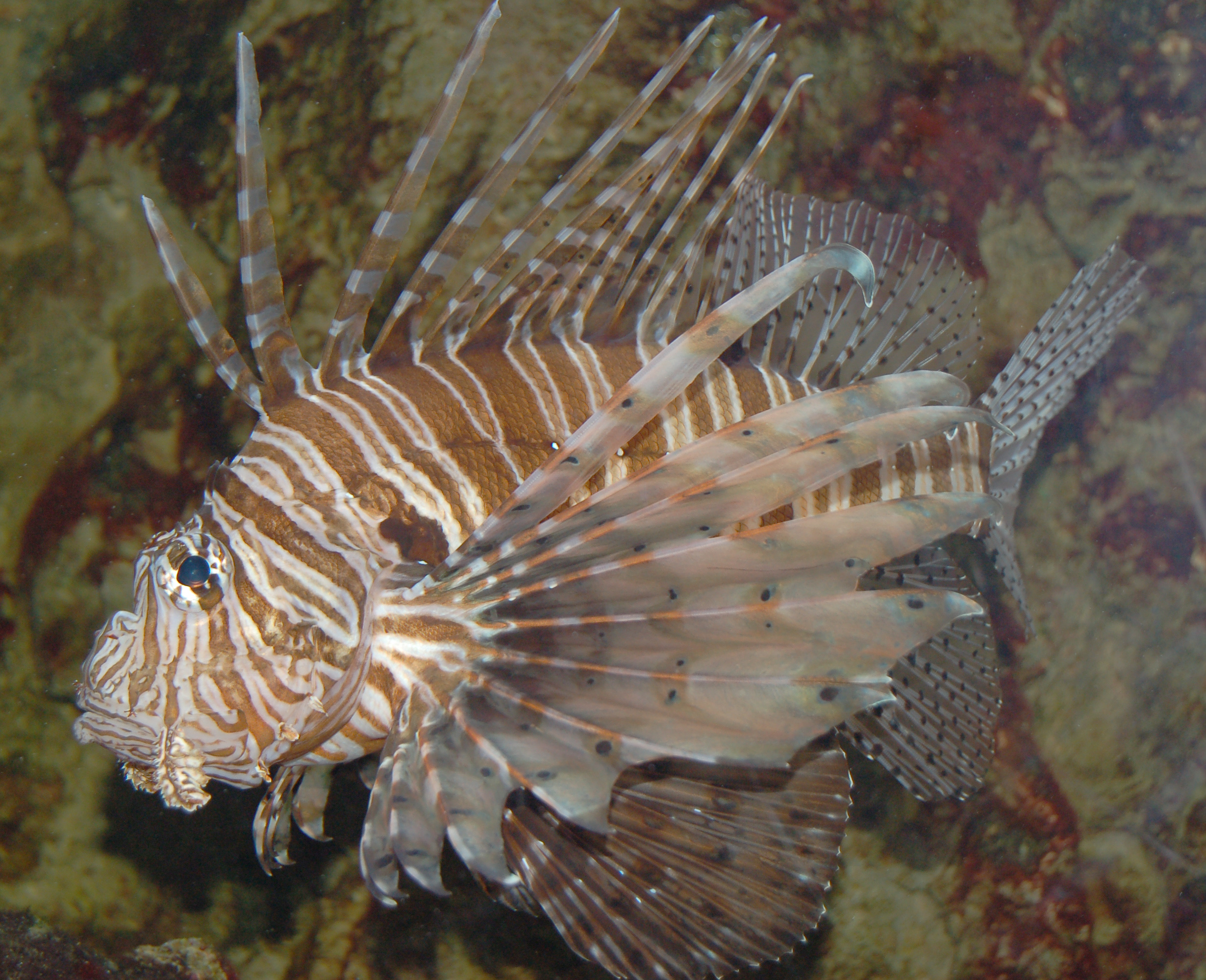 A photograph of a Lionfishen (Pterois). Photo taken at the PPG Aquarium in the Pittsburgh Zoo.